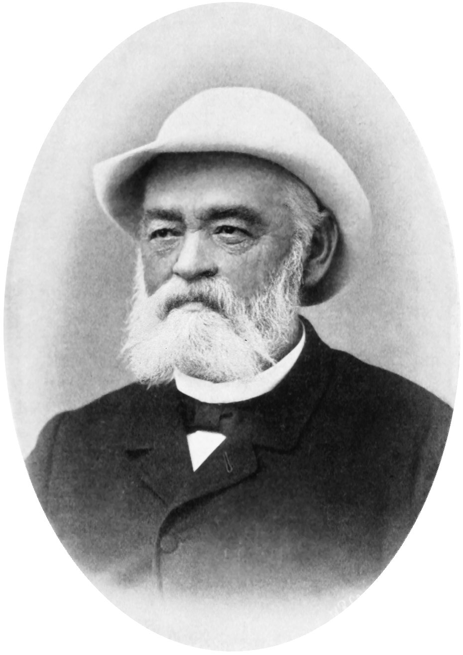 Alexander Spengler (March 20, 1827-November 1, 1901)